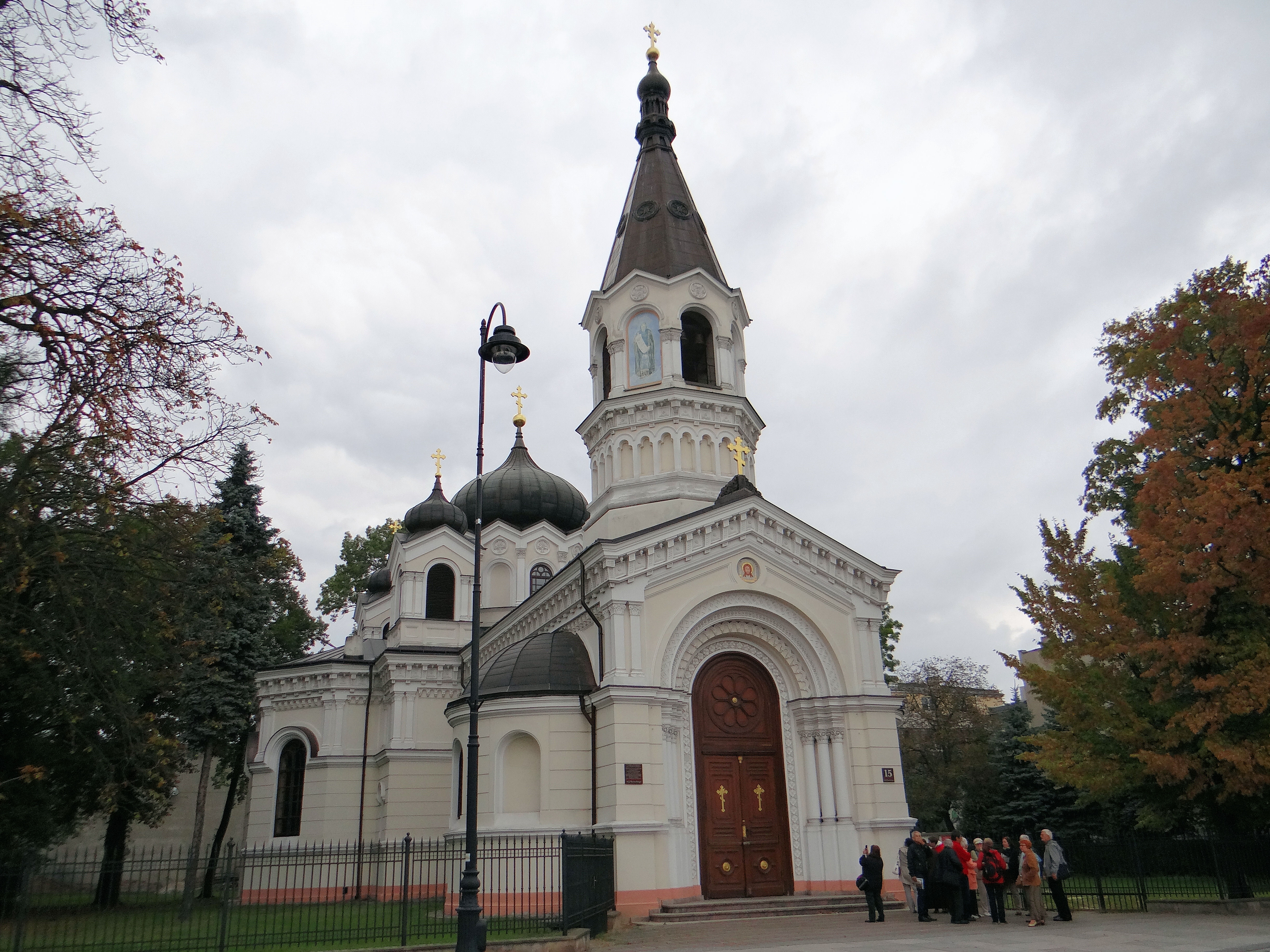 Orthodox church in Piotrków Trybunalski